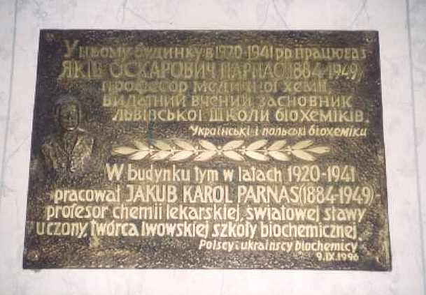 Jakub Parnas table on Medical University in Lwów